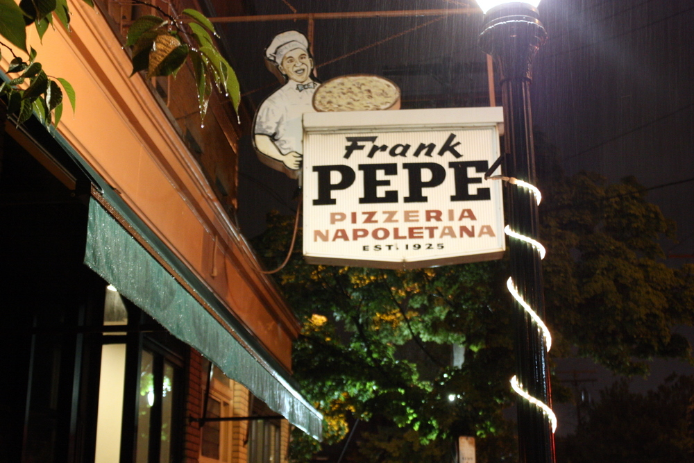 Exterior awning and sign of Frank Pepe Pizzeria Napoletana in New Haven, Connecticut